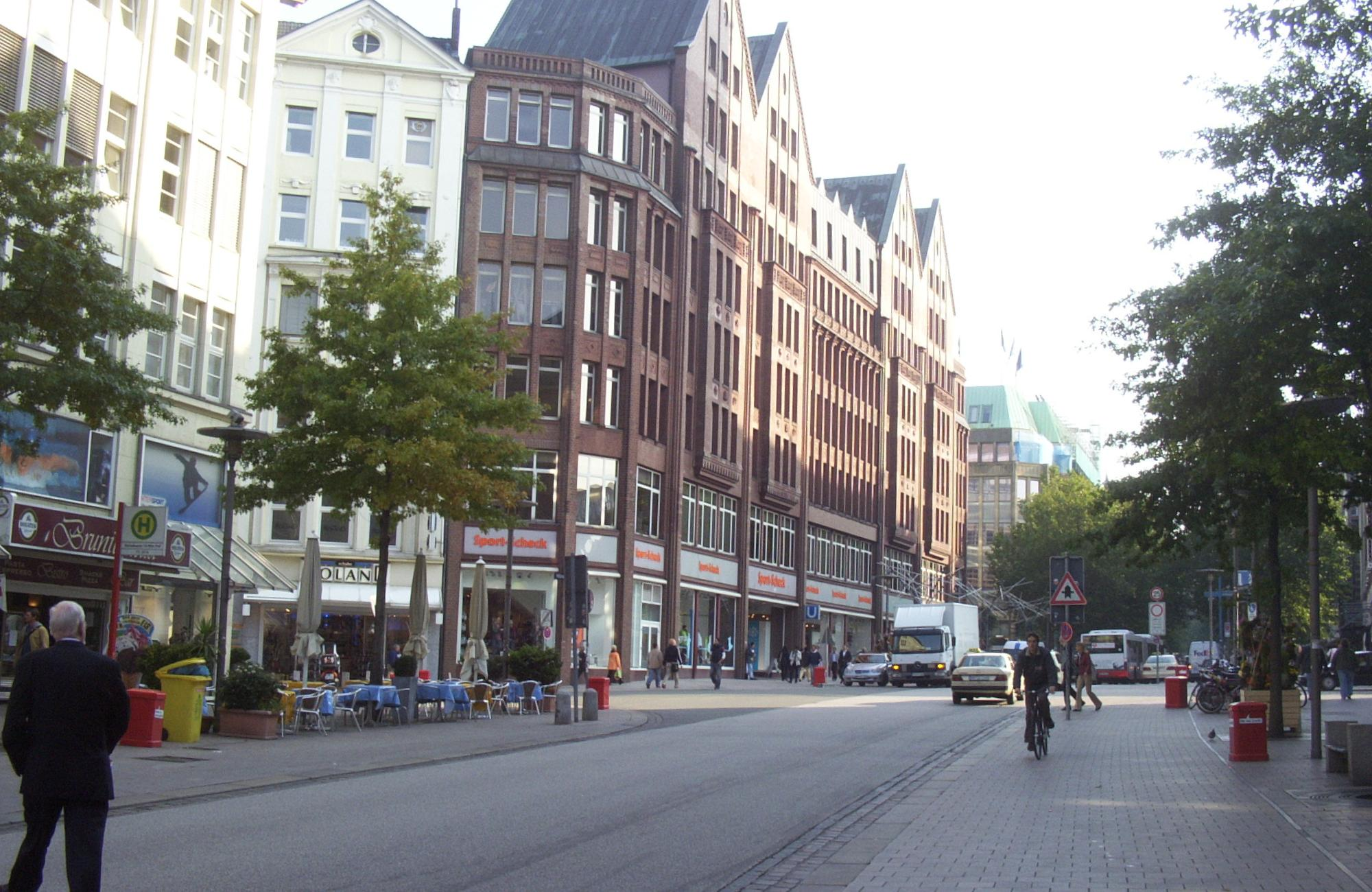 The Hamburger shopping street Mönckebergstraße at the crossing with the street Bergstraße.